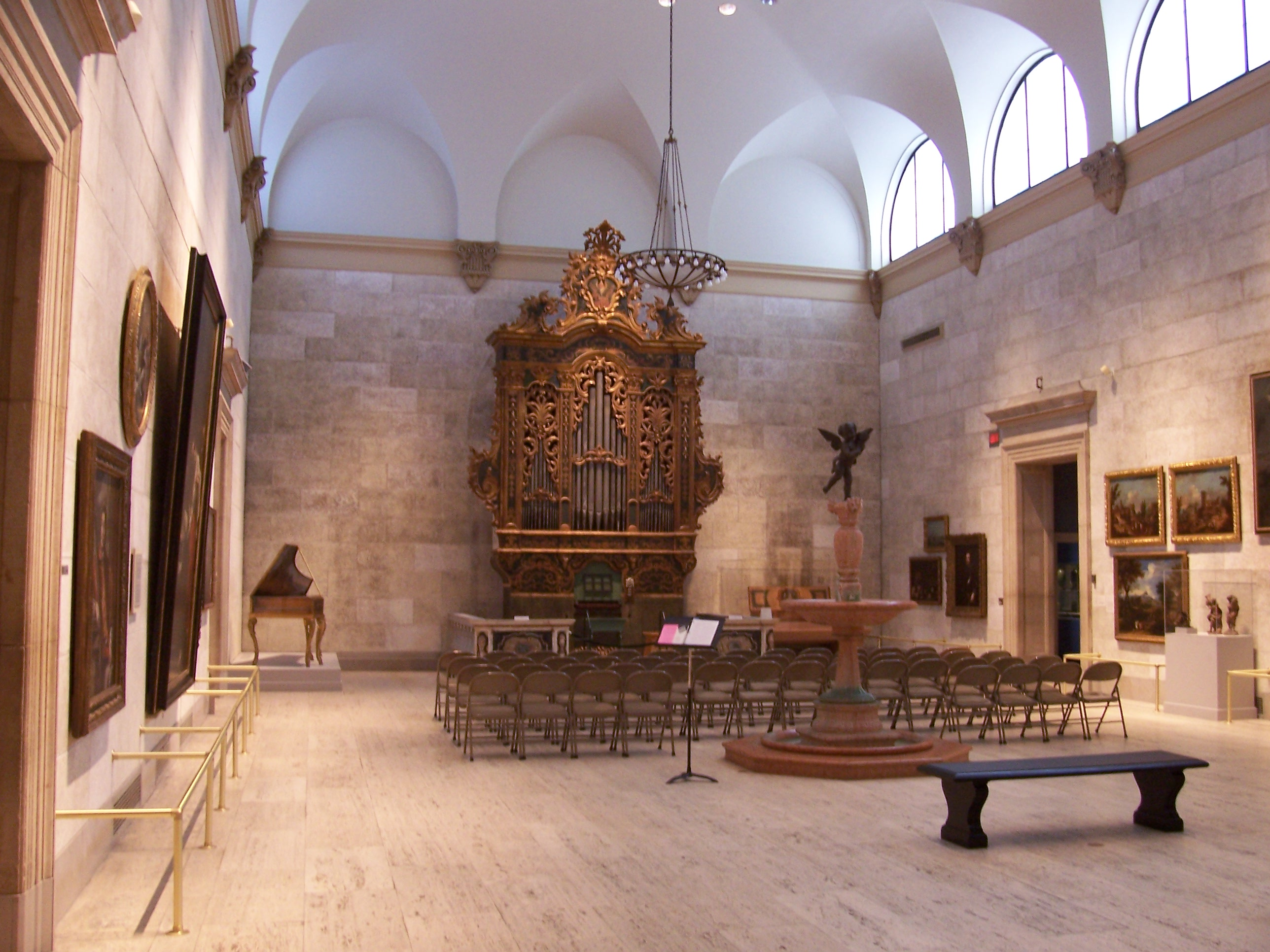 The fountain court area of the Memorial Art Gallery main gallery, second floor